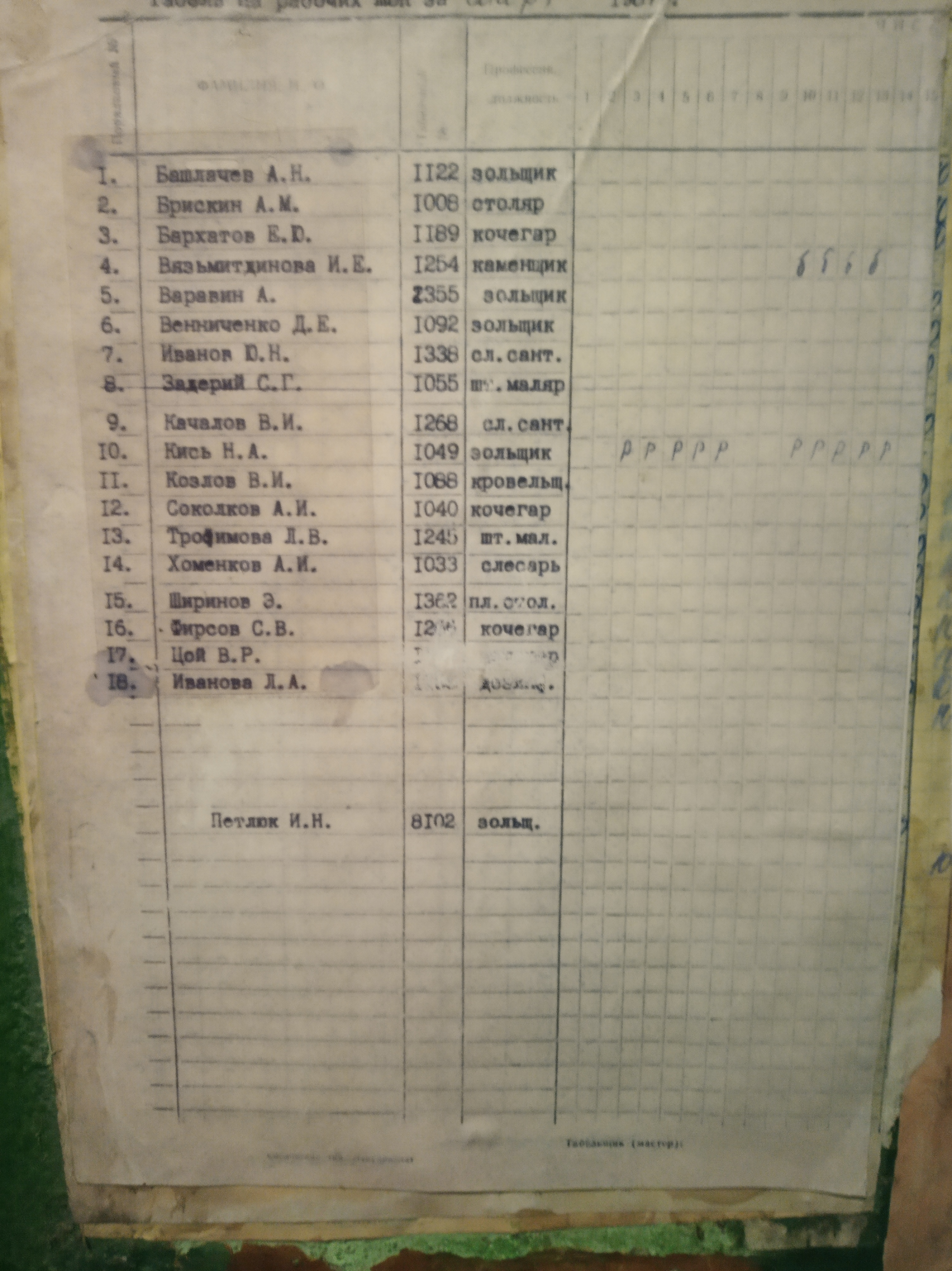 Blokhina Street, 15